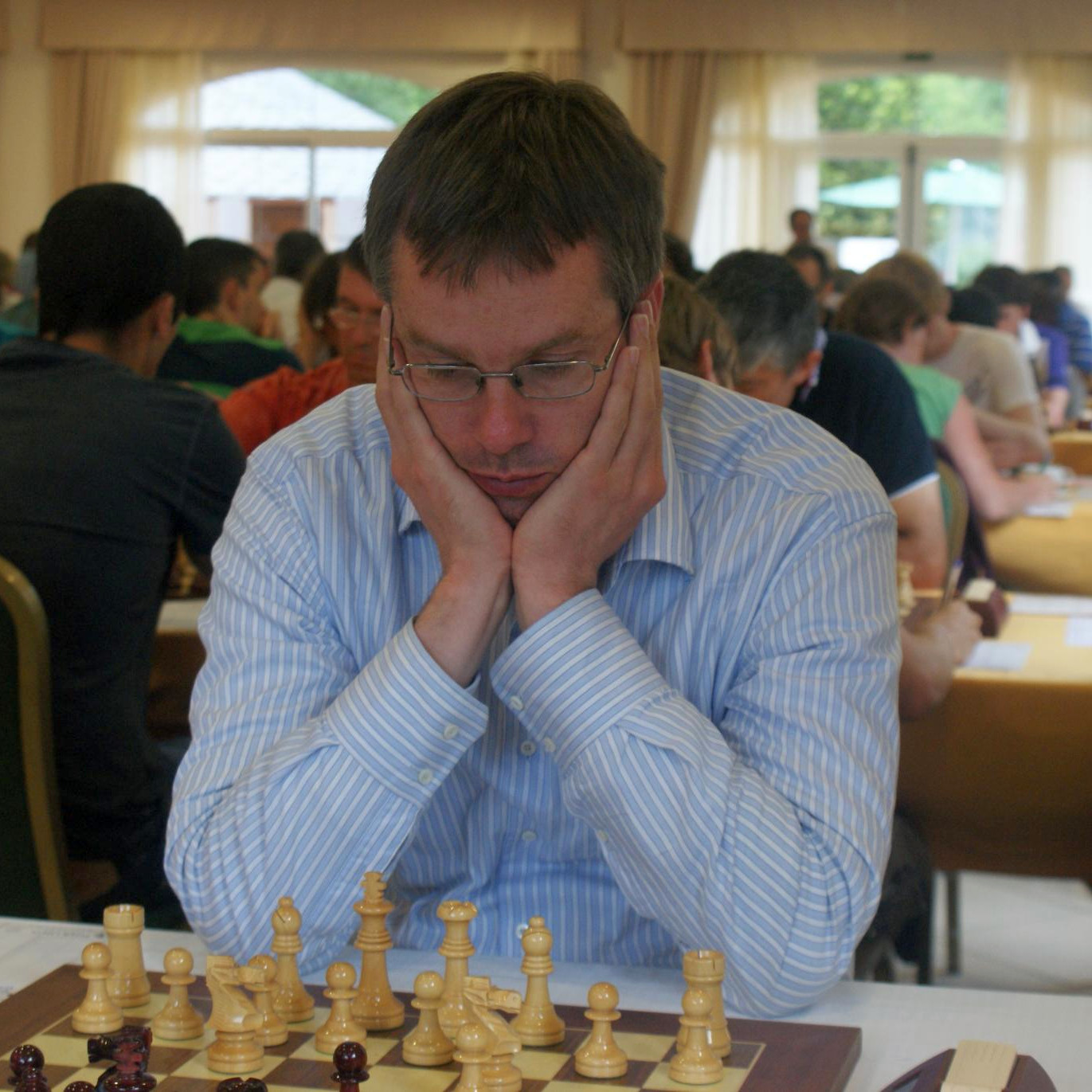 GM Hedinn Steingrimsson, 31è Open Internacional d'Andorra, Hotel Sant Gothard, Ronda 5 - 24/07/2013